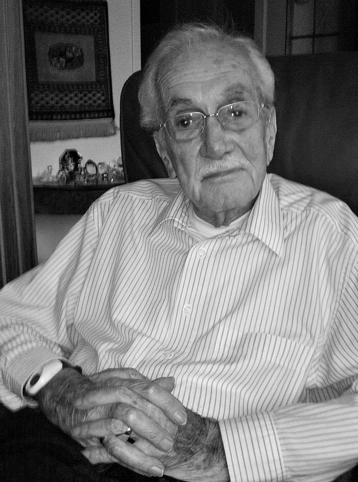 Donald Bamberg